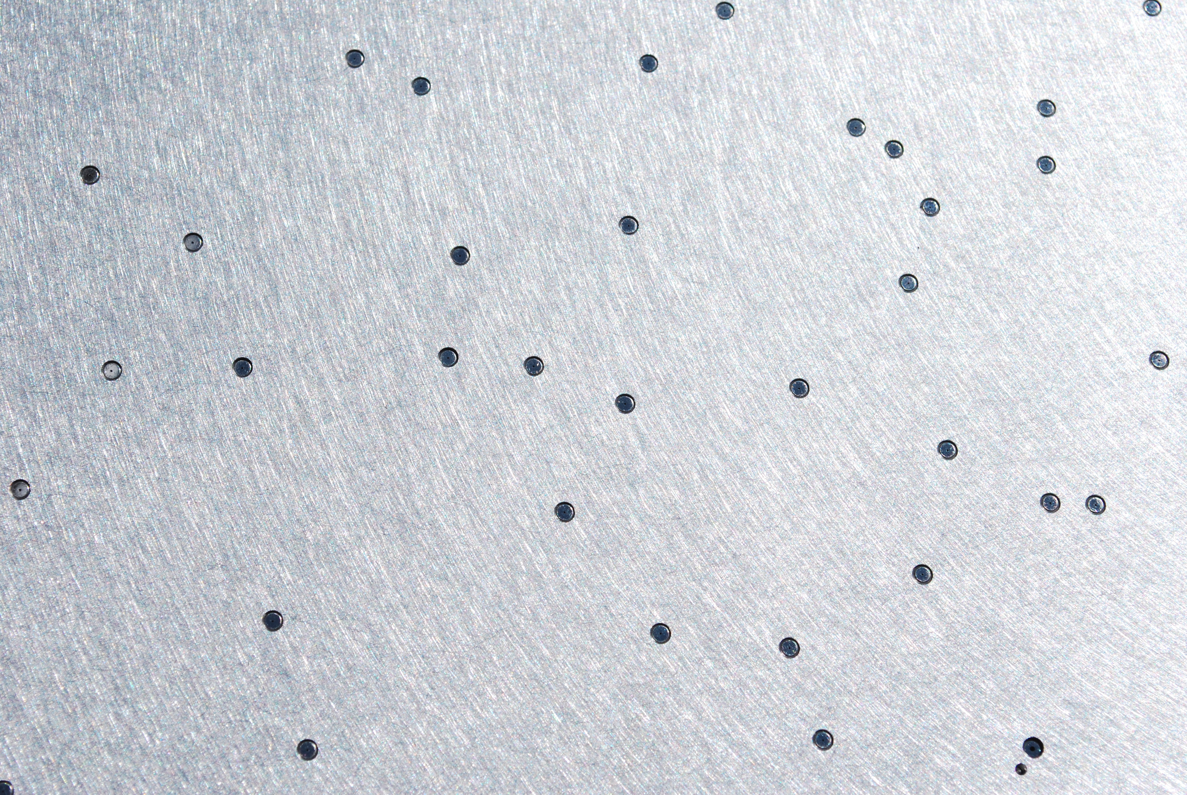 Detail of Sloan Digital Sky Telescope spectrograph aluminum plate with optical fibers installed. Most of each fiber is cladding; the tiny dot in the center is the actual light-conducting fiber.